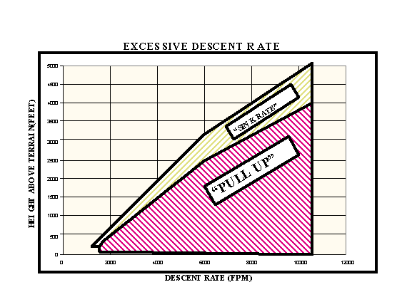 faa-tso-c151b-sink-rate.png